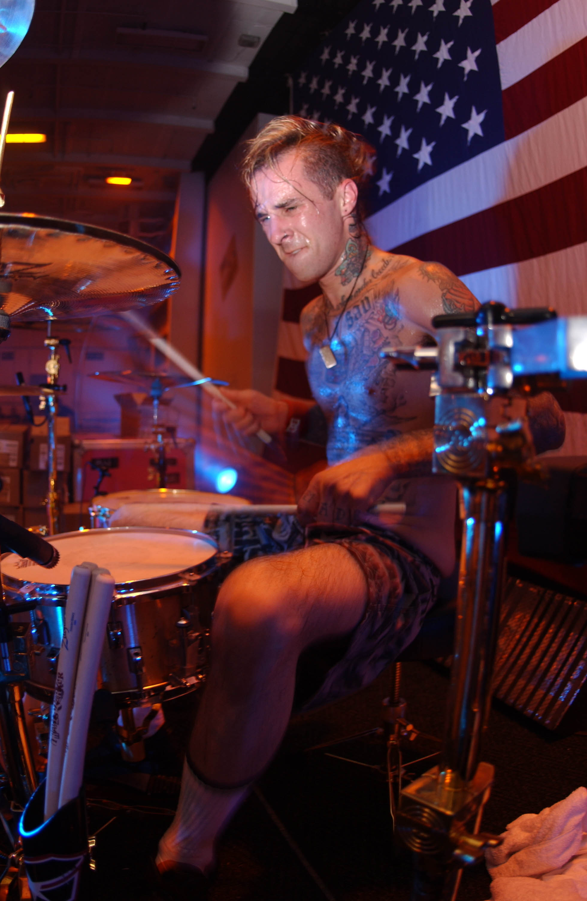 Central Command Area of Responsibility (Aug. 27, 2003) -- Drummer Travis Barker, of the rock bank Blink-182, performs for the crewmembers of USS Nimitz (CVN 68) and Carrier Air Wing Eleven (CVW-11) during a Morale Welfare and Recreation (MWR) show aboard the nuclear powered aircraft carrier. The Nimitz Strike Group and Carrier Air Wing 11 (CVW-11) are deployed in support of Operation Iraqi Freedom, the multi-national coalition effort to liberate the Iraqi people, eliminate Iraq’s weapons of mass destruction, and end the regime of Saddam Hussein. U.S. Navy photo by Photographer’s Mate 2nd Class Tiffini M. Jones. (RELEASED)